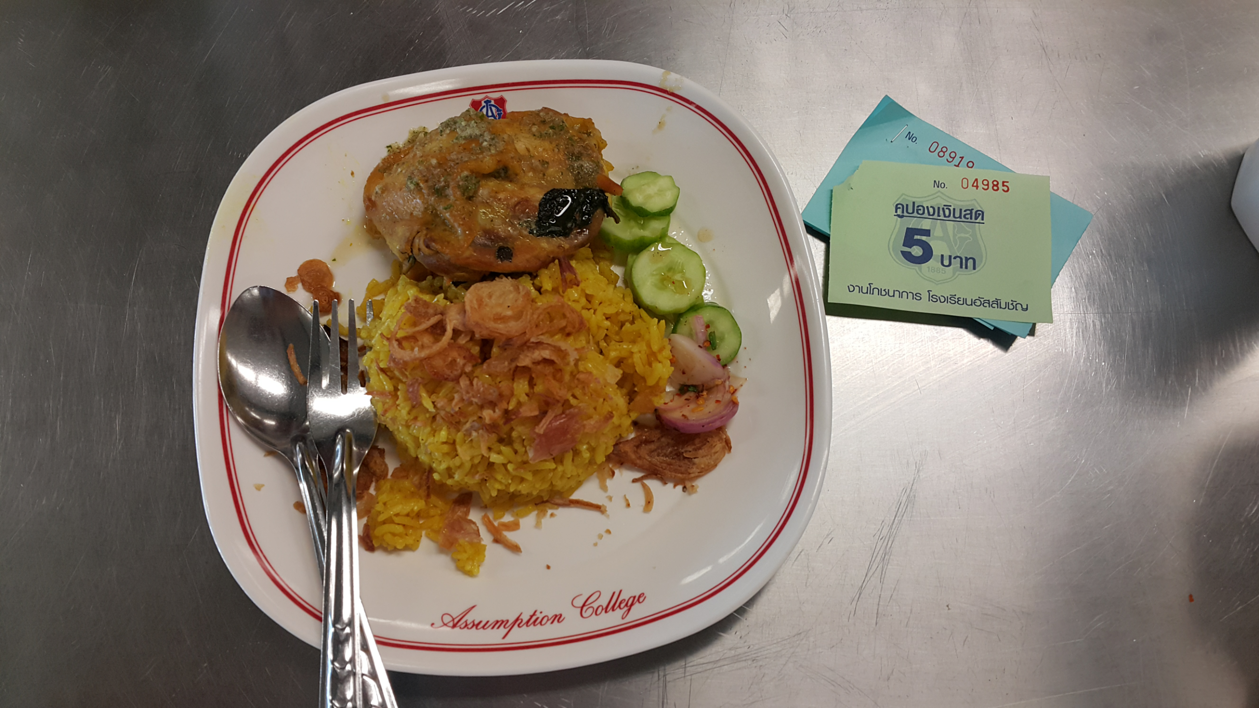 Thai chicken biryani ข้าวหมกไก่